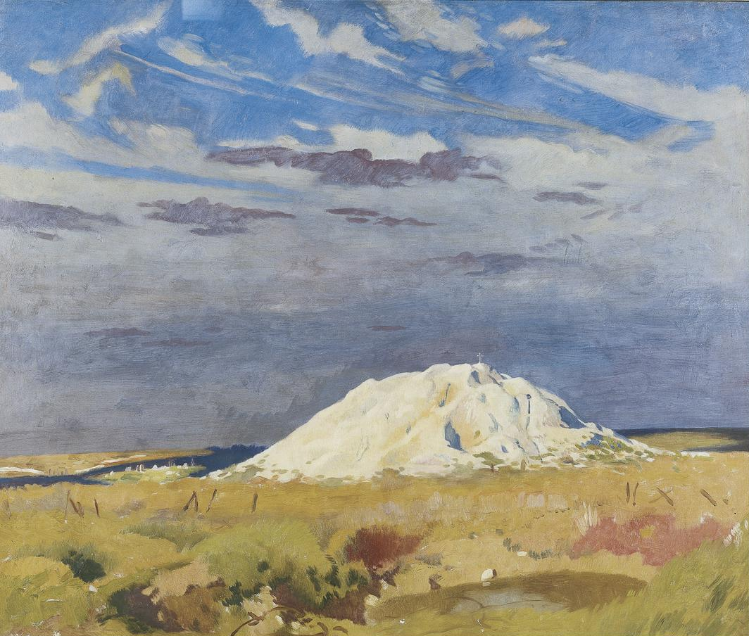 The Butte de Warlencourt image: The white chalky remains of the Butte de Warlencourt surrounded by battle-scarred countryside.